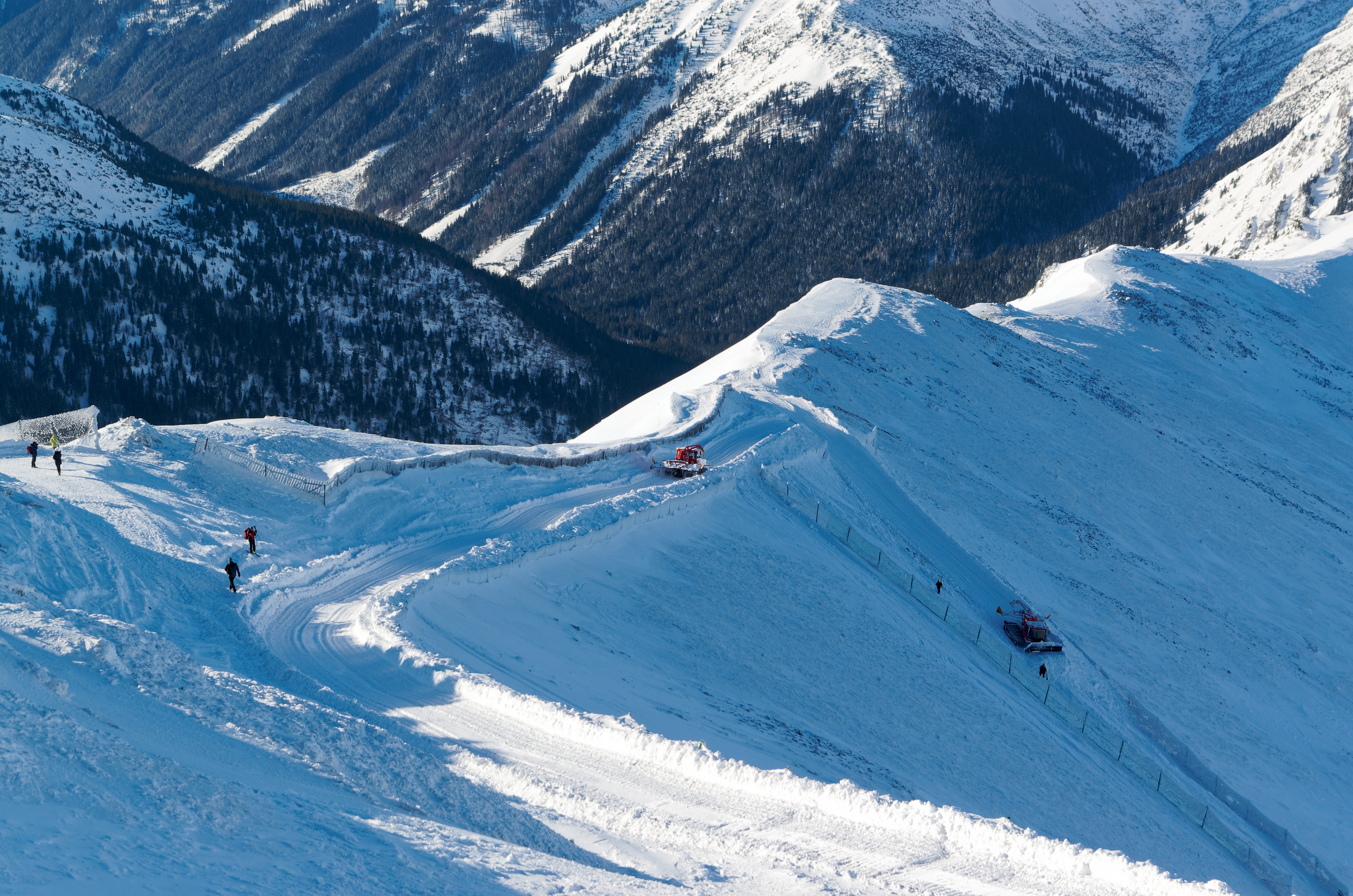 Kasprowy Wierch in Tatra Mountains